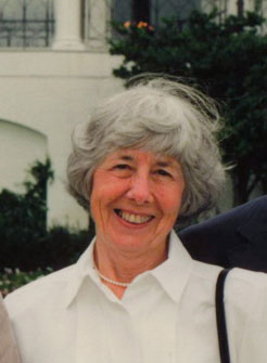 Dr Ruth Christ Sullivan, 1991